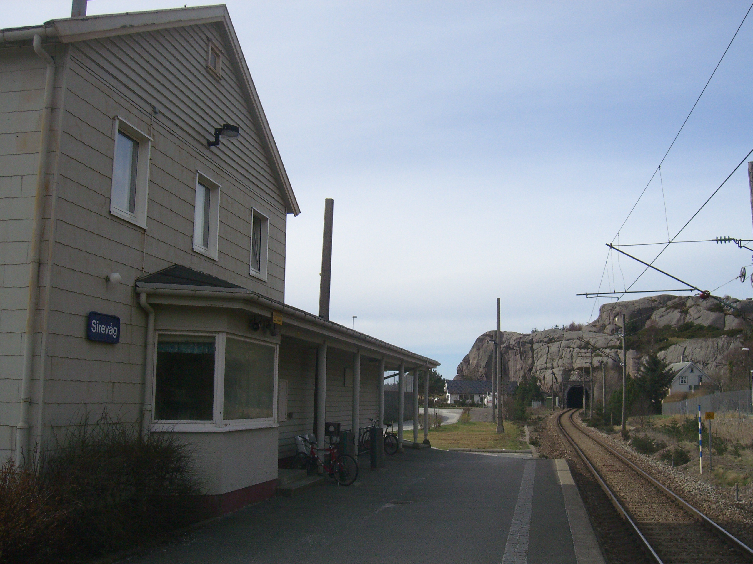 Sirevåg Station on Sørlandsbanen, in Hå, Rogaland, Norway